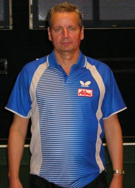 The austrian table tennis player Stanislaw Fraczyk.